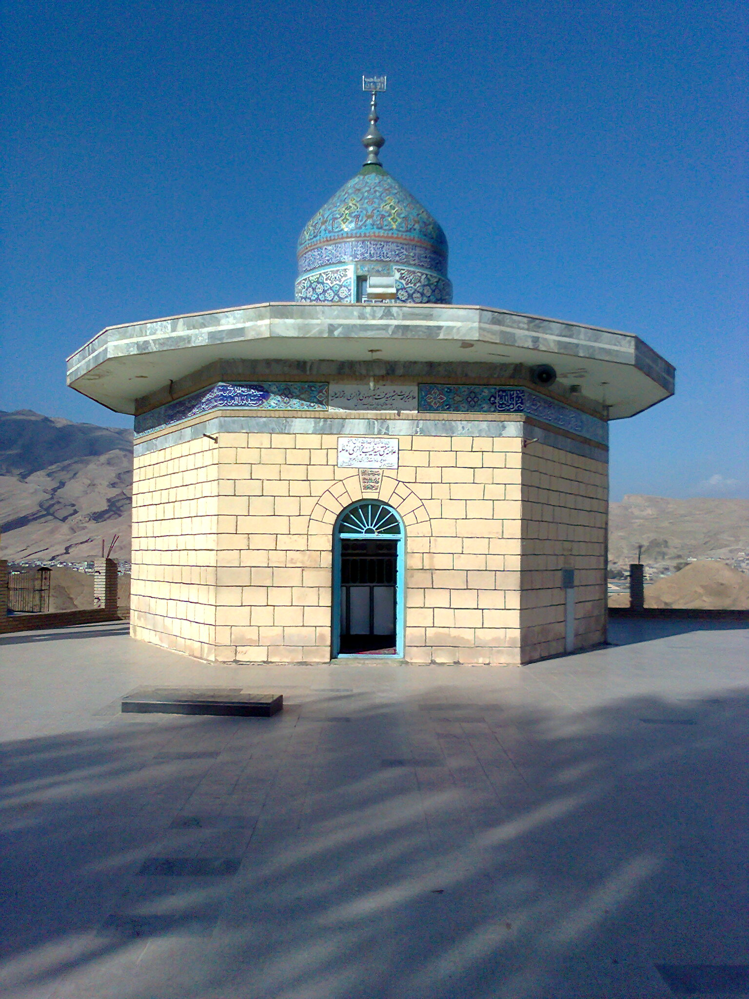 Tomb Jazaeri-poldokhtar